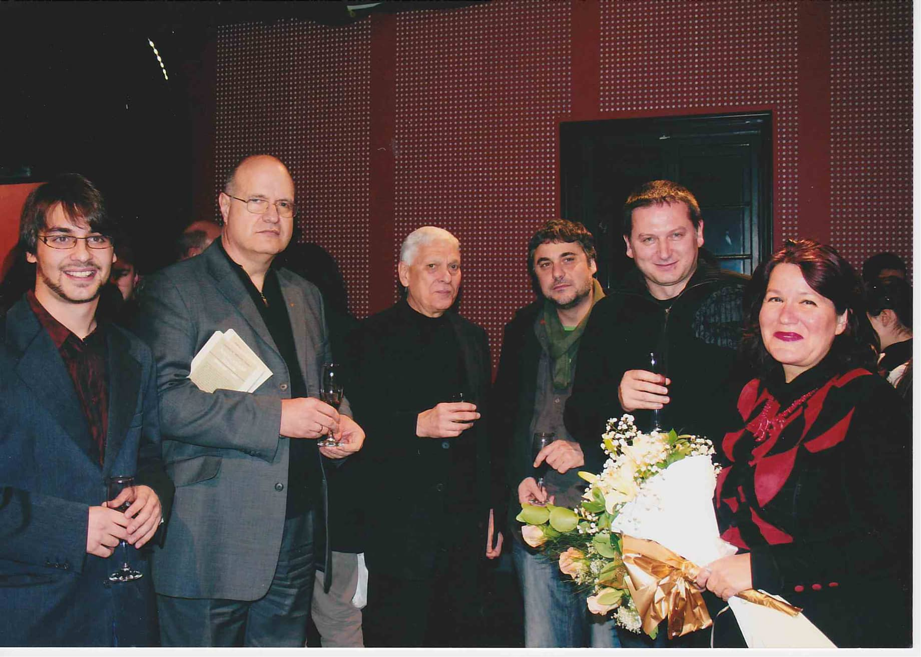 Kristin Jurukowa bei ihrer Auszeichnung mit dem Nationalliteraturpreis der Razvitie Stiftung